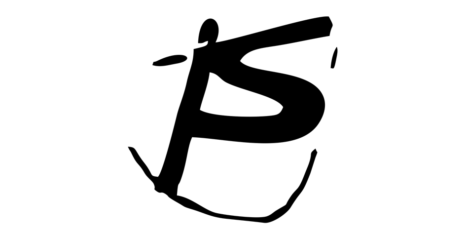 Signature Peter Schros from 1517 on the epitaph of Walter von Reiffenberg, Kronberg, ev. Parish Church